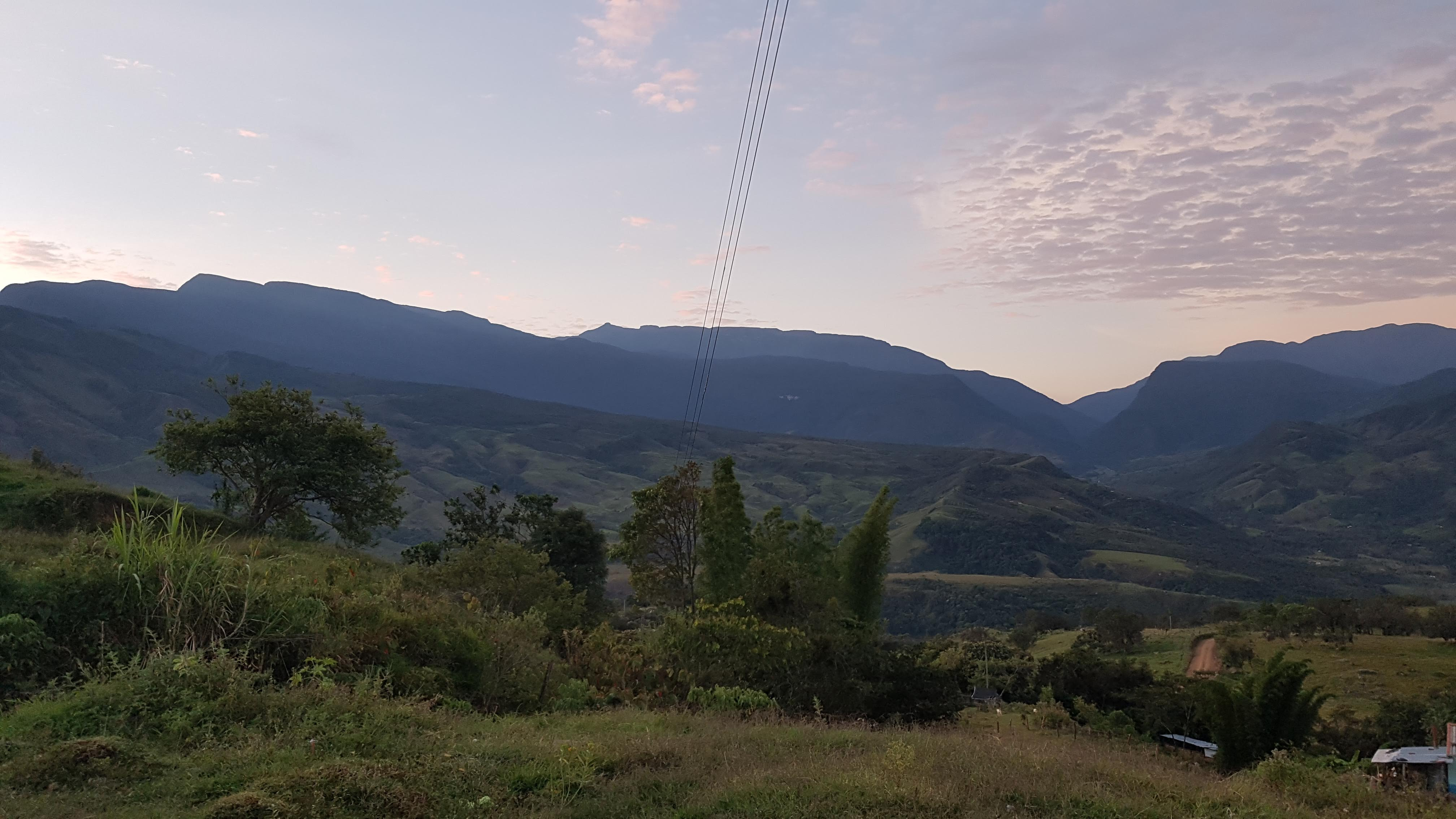 View of Guanentá - Fonce river Wildlife protected area from Encino town in Santander Esta fotografía fue tomada en un área protegida de Colombia con el código 76 del RUNAP.